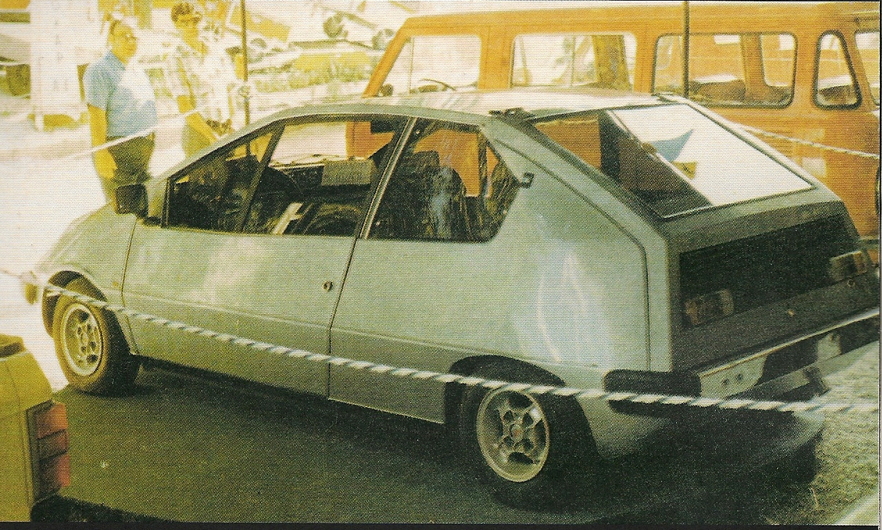 Image of the Arco Iaspis.